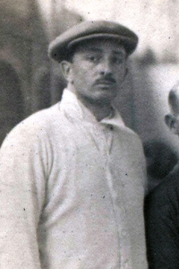 Raoul Le Mat with the swedish national ice hockey team at the 1920 Summer Olympics in Antwerp, Belgium. The picture is a crop out of a larger team photo taken inside the ice rink Palais de Glace d'Anvers. The ice hockey tournament at the 1920 Summer Olympics took place between April 23 and April 29.